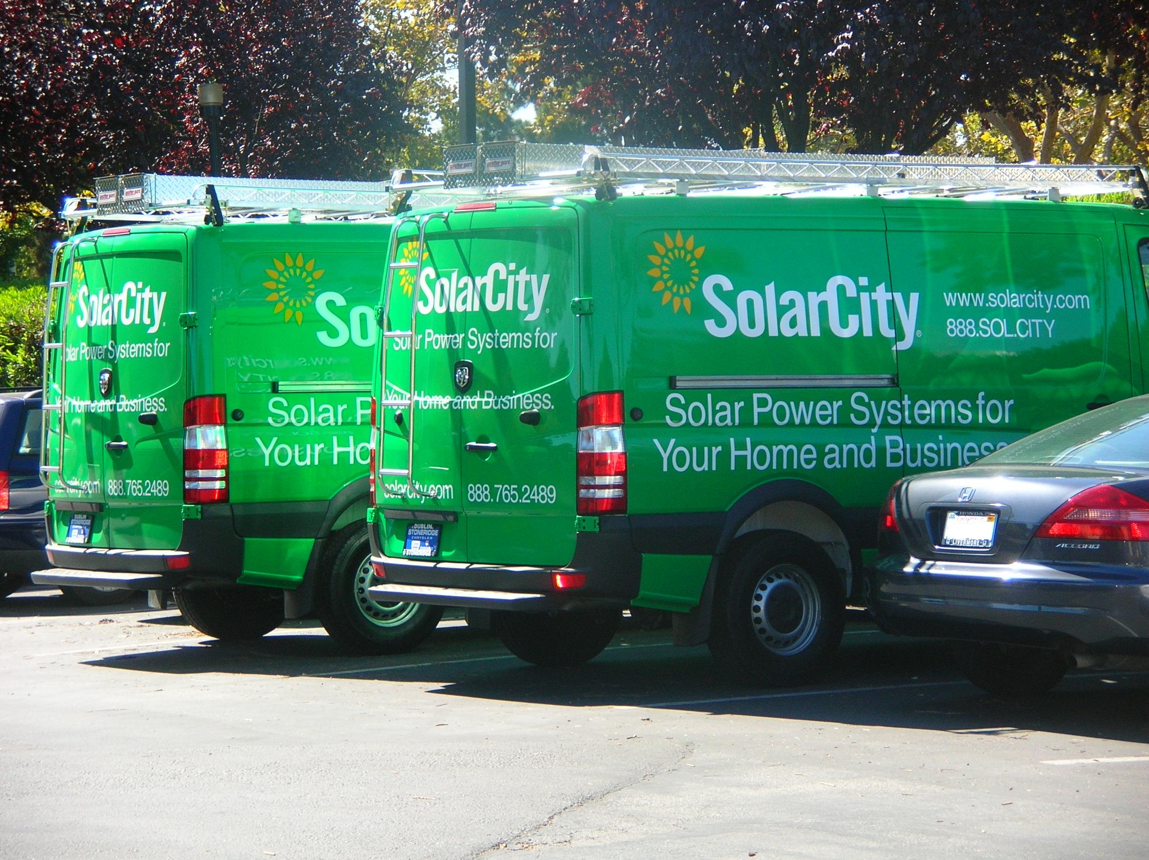 A pair of 2009 SolarCity Dodge Sprinters parked outside the SolarCity headquarters in Foster City, California.